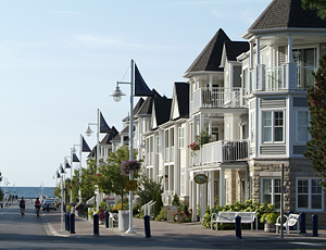 Nautical Village, Liverpool Road by Lake Ontario and Frenchman's Bay, Pickering, Ontario, Canada, part of Waterfront trail